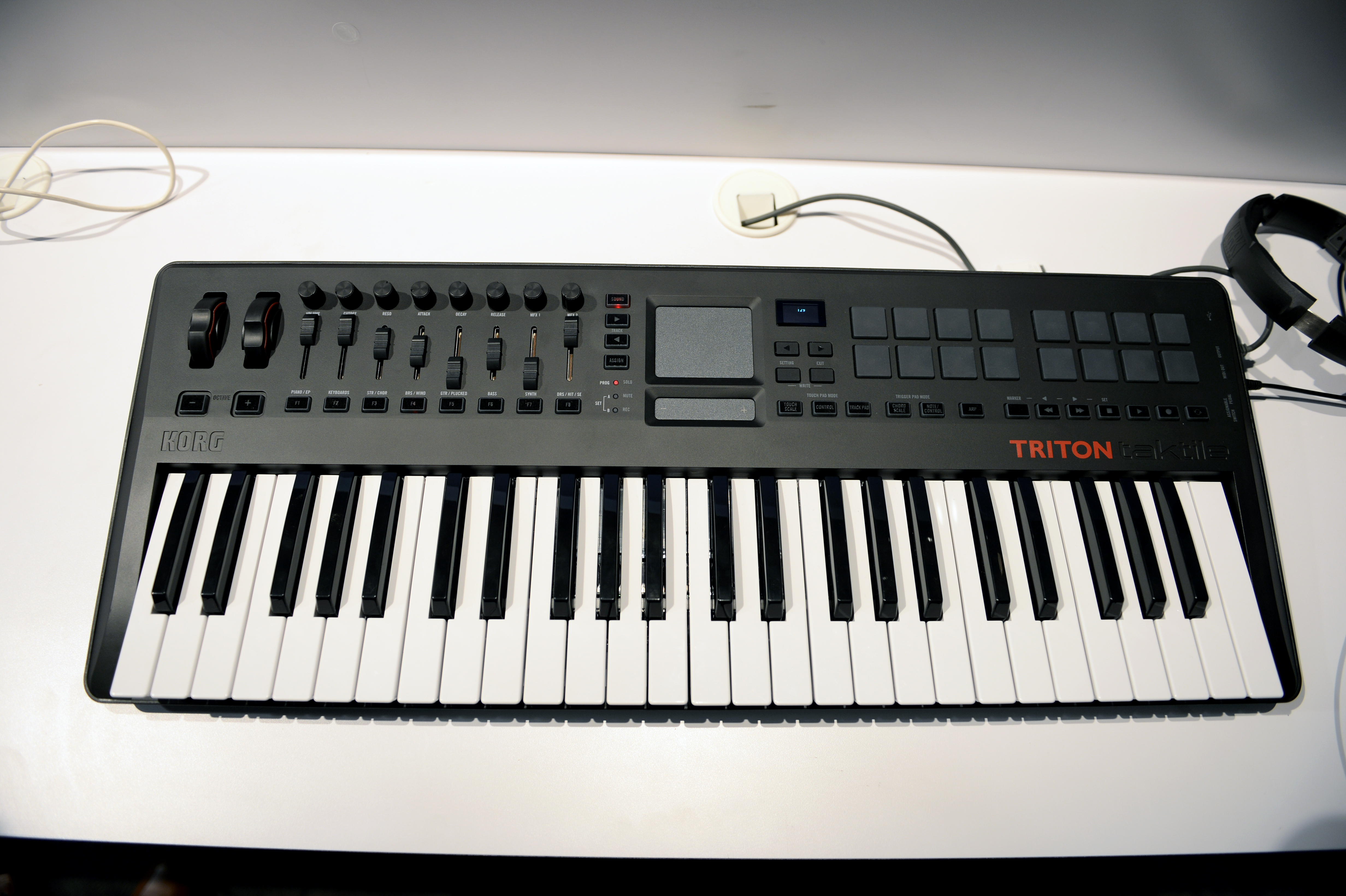 Korg Triton Taktile USB Controller Keyboard / Synthesizer - 2014 NAMM Show USB controller with full-size keys & OEL screen KAOSS pad offers phrase gen., MIDI CC, or track pad functionality Assignable faders, switches, pads & wheels